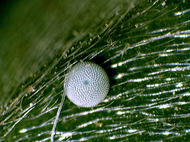 Mission blue butterfly - egg - (Aricia icarioides missionensis. syn: Icaricia icarioides missionensis’'.